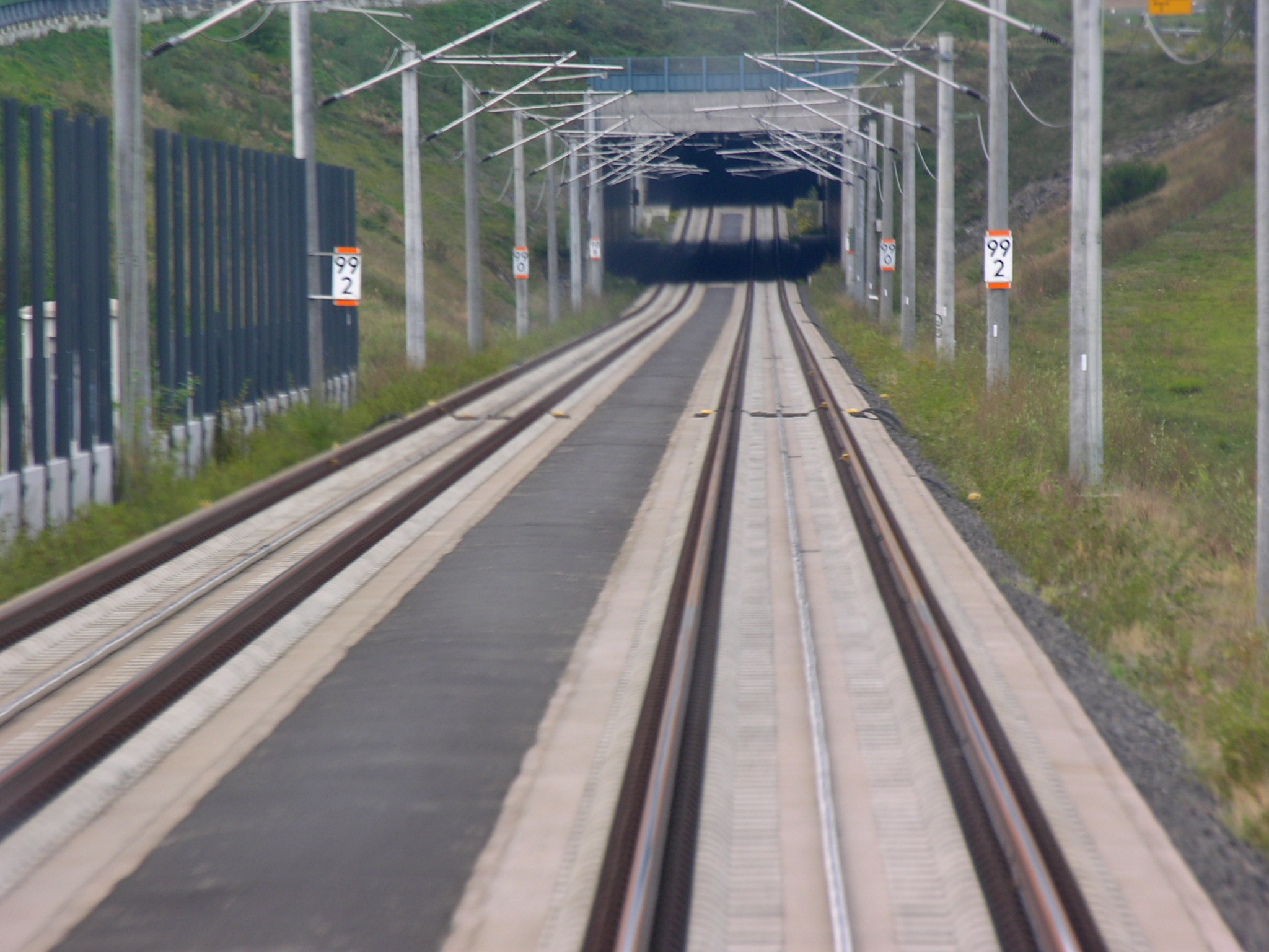 From Frankfurt to Cologne in the driver's cabin